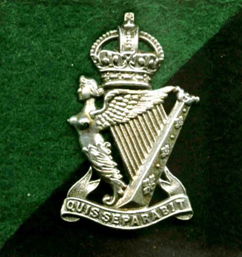 Crest and cap badge of the Royal Ulster Rifles This work created by the United Kingdom Government is in the public domain. This is because it is one of the following: It is a photograph taken prior to 1 June 1957; or It was published prior to 1970; or It is an artistic work other than a photograph or engraving (e.g. a painting) which was created prior to 1970. HMSO has declared that the expiry of Crown Copyrights applies worldwide (ref: HMSO Email Reply)More information. See also Copyright and Crown copyright artistic works.